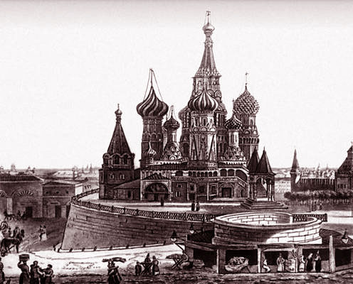 Saint Basil's Cathedral and Lobnoye mesto (front right). A lithography by Cadol circa 1825 depicting the site as it was restored after the Fire of Moscow.